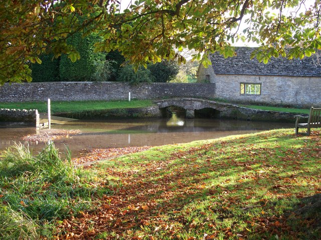 Ford at Shilton Alongside the village green, the ford is the way across Shill Brook